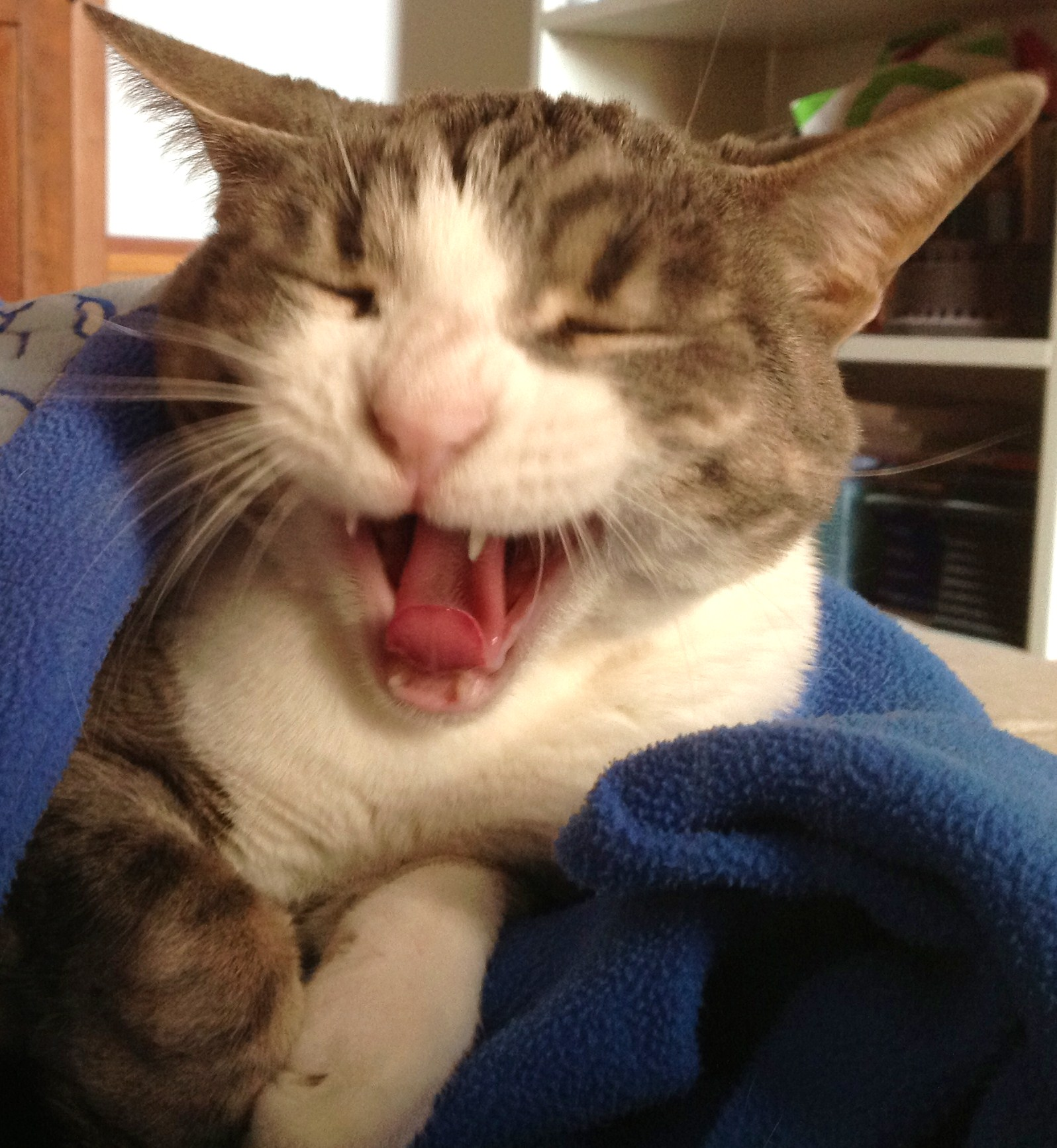 european cat yawn